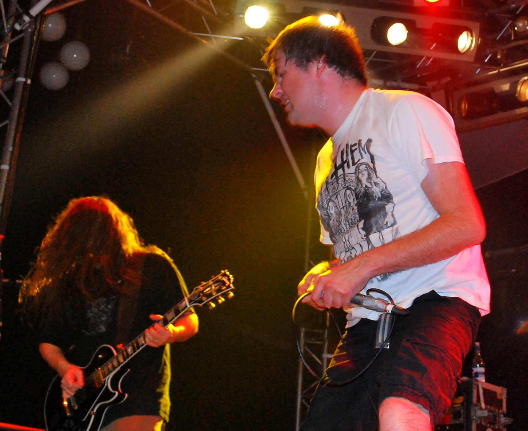 From left: Mitch Harris and Mark "Barney" Greenway of Napalm Death